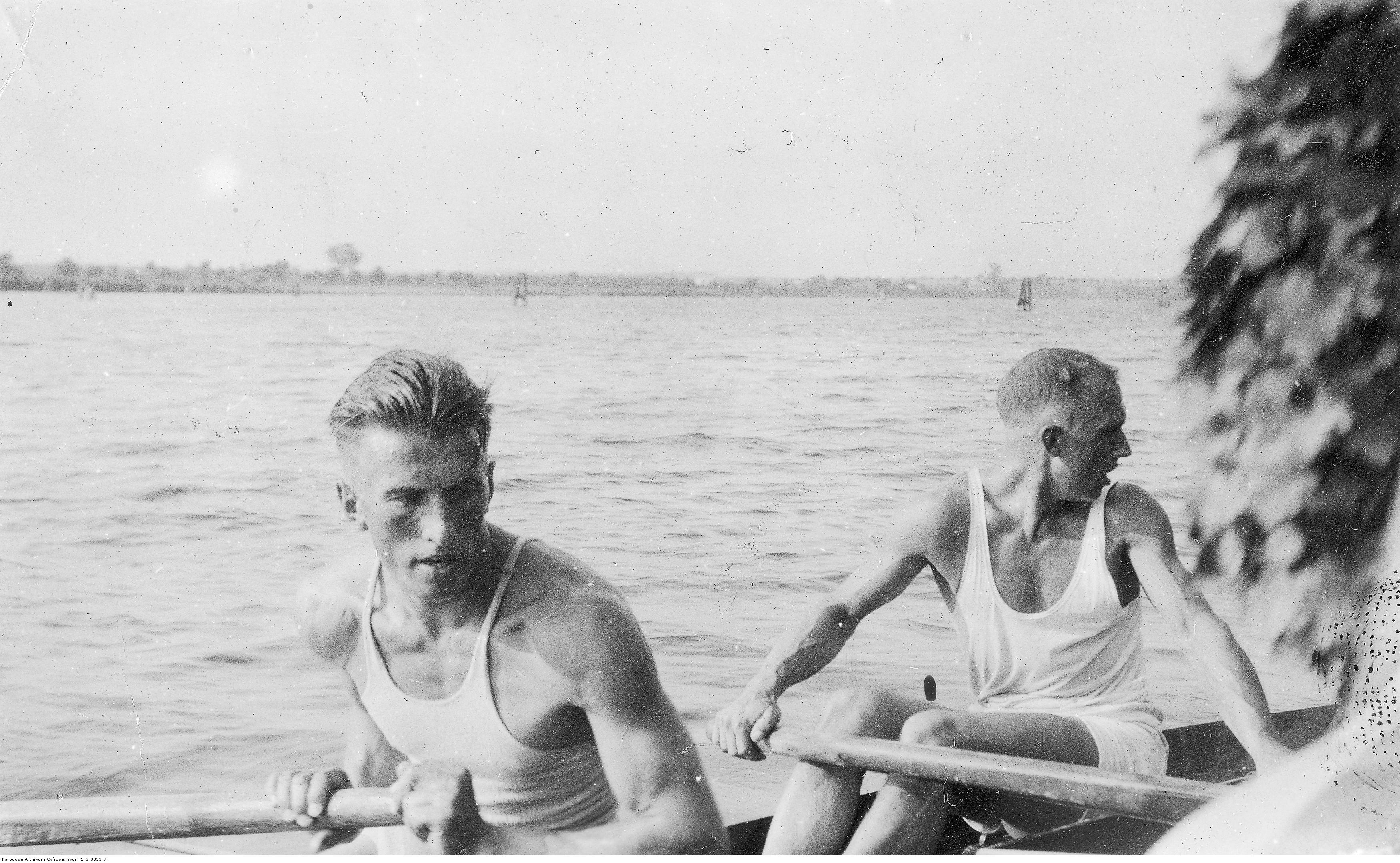 Rowing championship of Poland in Brdyujście. Rowers Witalis Leporowski and Stanisław Kuryłłowicz from the rowing club 04 from Poznan during the competition. (based on other photos, the uploader believes that Kuryłłowicz is the one on the left)